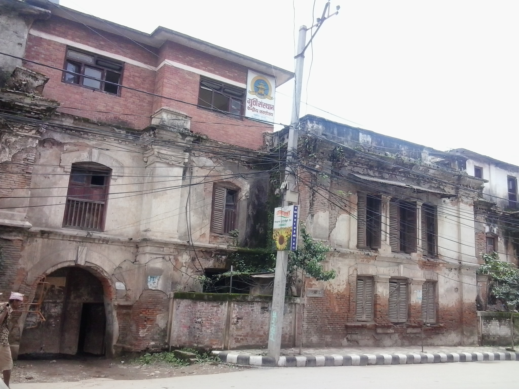 डिल्लीबजार कारागार २